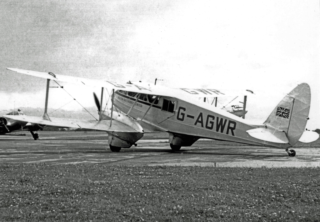 De Havilland Dragon Rapide G-AGWR of Morton Air Services at Manchester Airport in 1950